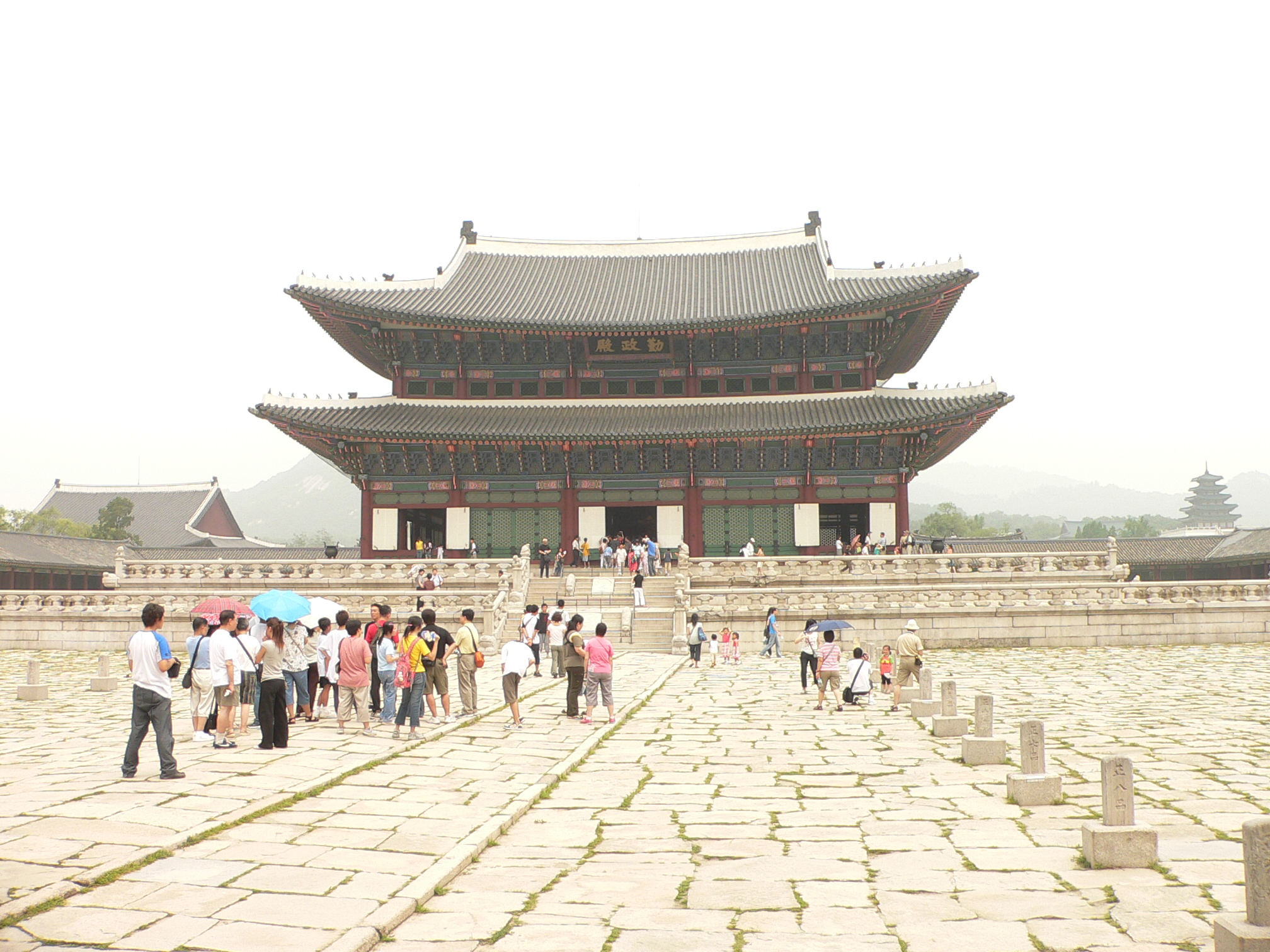 Gyeongbokgung Geunjeongjeon